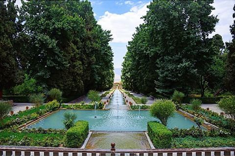 Shazde Garden, Mahan City, Kerman Province, Iran